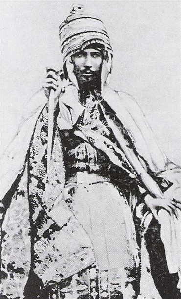 Yohannes IV